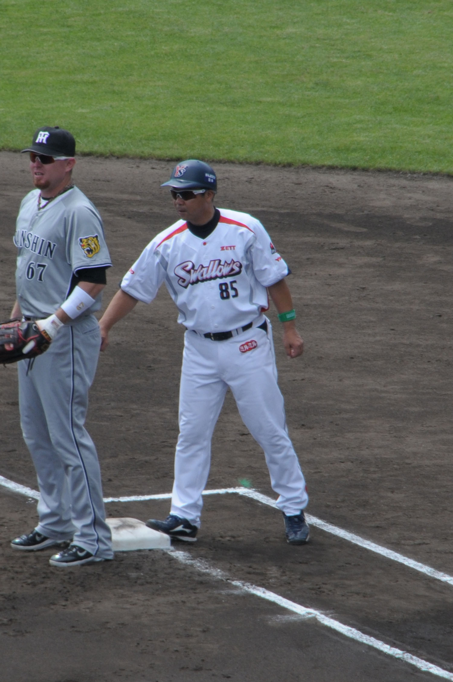 Tetsuya Iida, coach of the Tokyo Yakult Swallows, at Akita Prefectural Baseball Stadium.